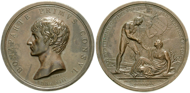 France, First Consulate. Napoleon I. 1799-1804. Æ Medals (52mm, 79.90 g, 12h). Restoration of the Cisalpine Republic. Lavy and Appiani, engravers. Dated Year 8 of the Revolution (1800). Bare head right Hercules standing right, raising Gallia Cisalpina; behind, Victory engraving shield. Cf. Bramsen 42.